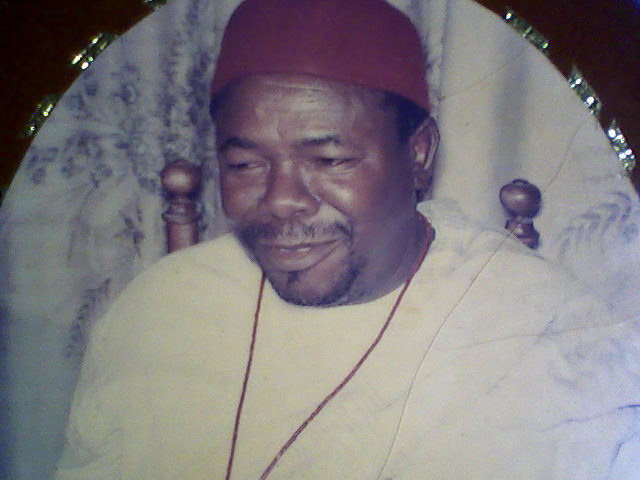 Richard Okonye on his 50th birthday